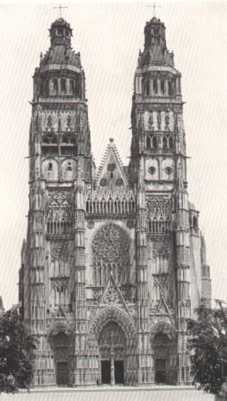 Tours Cathedral, July 1922 National Geographic